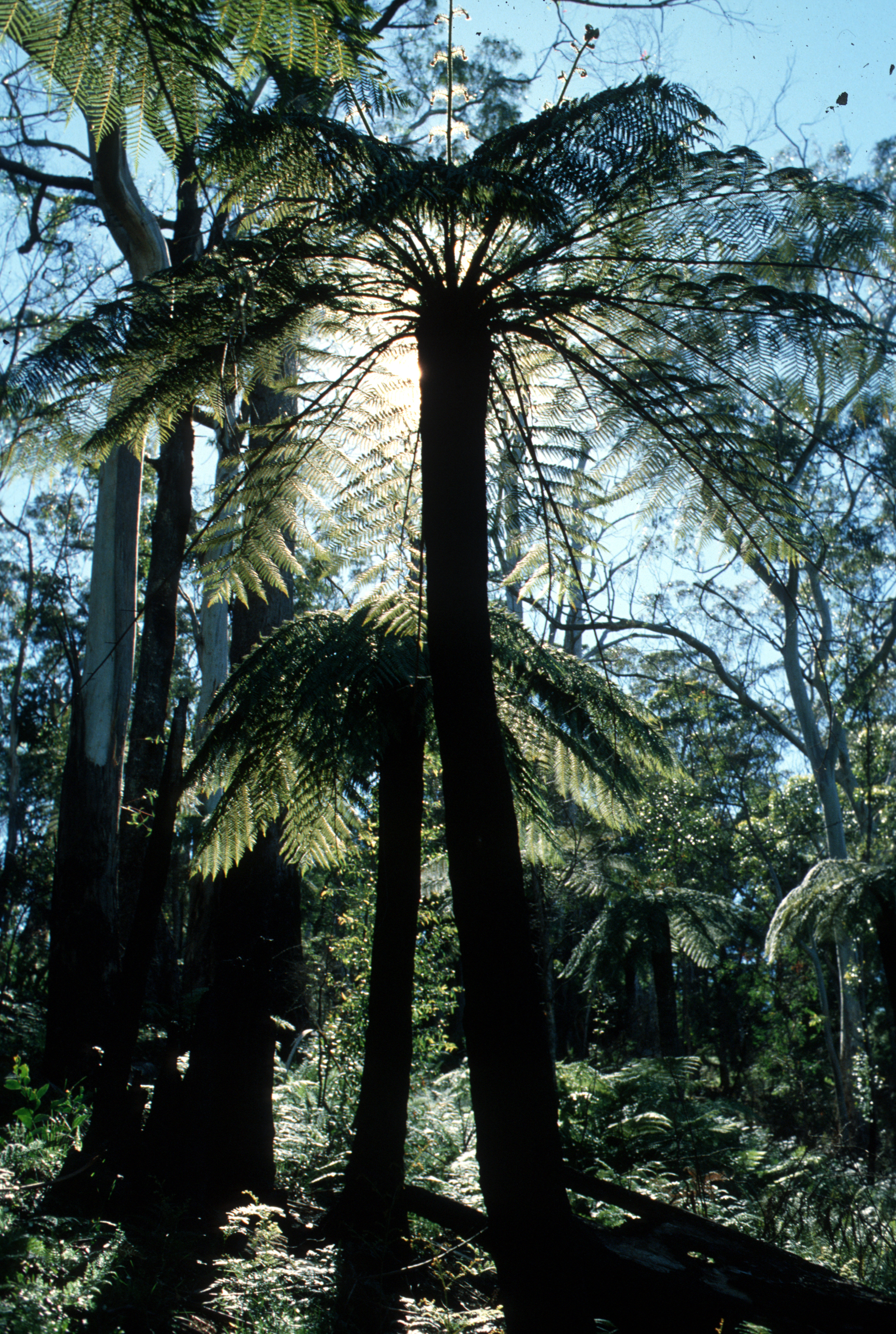 Rough Tree Fern (Cyathea australis), Mt. Wilson, NSW. This hardy tree-fern extends beyond the limits of the fern gullies into mountain forests and is fire-resistant. After a bush fire has been through the forest it produces new fronds, appearing as luxuriant as ever after a space as short as six months.